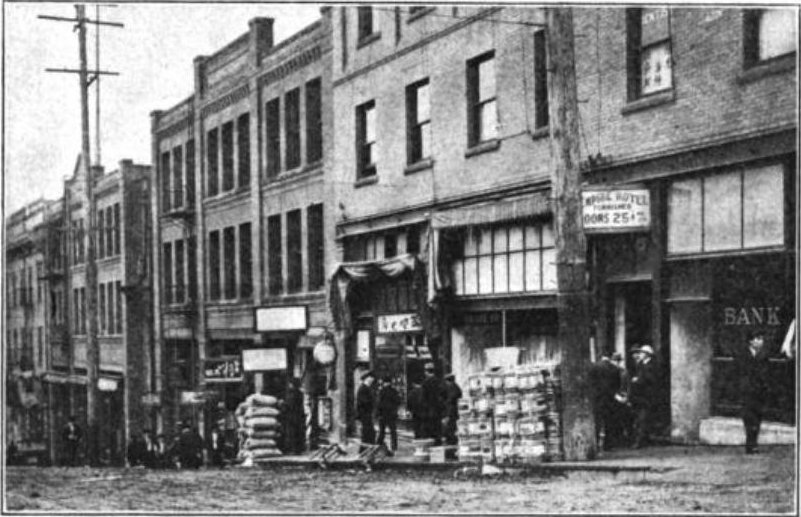 Original caption: "One of the main business streets in the Japanese Colony, Seattle". I'd guess this is somewhere near Fifth & Main, but I'm not sure. If anyone knows precisely which street, please edit description accordingly.